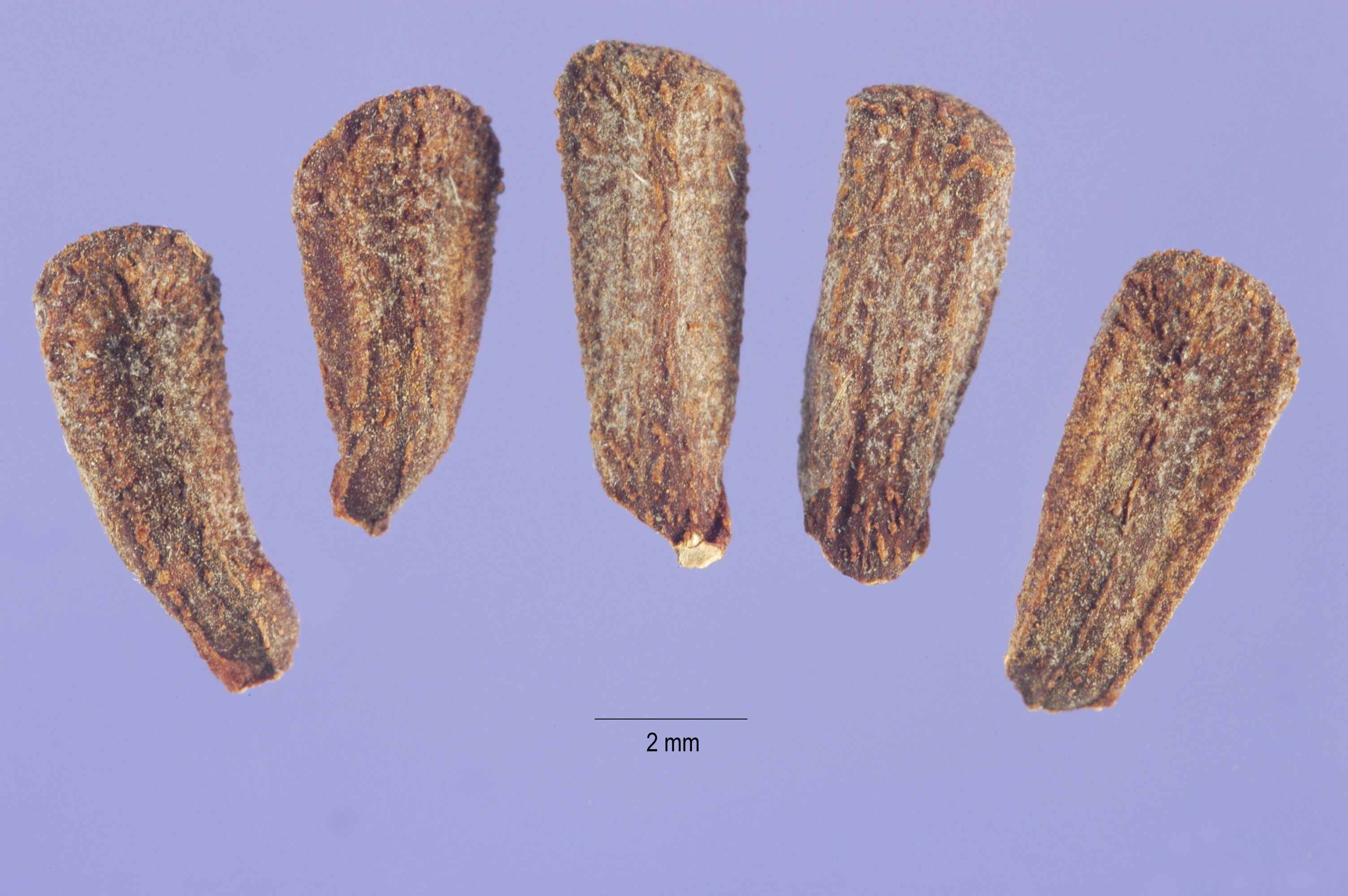 Araujia sericifera from Steve Hurst. Provided by ARS Systematic Botany and Mycology Laboratory. Argentina.